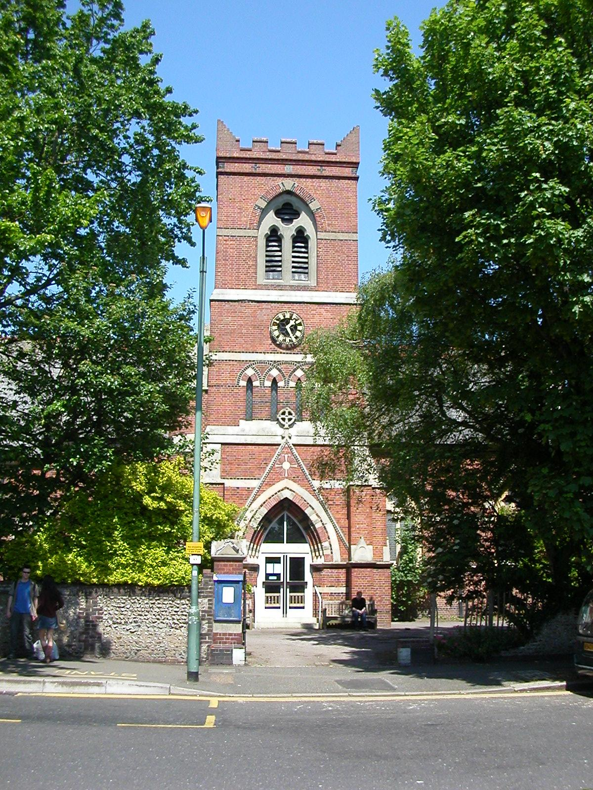 South tower of the former parish church of the Holy Trinity, Blatchington Road, Hove, Sussex, England, seen from the south in June 2007, the year before the church was declared redundant